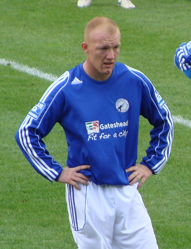 Andy Ferrell